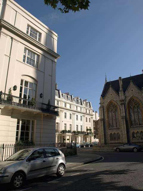 Chester Square, Belgravia